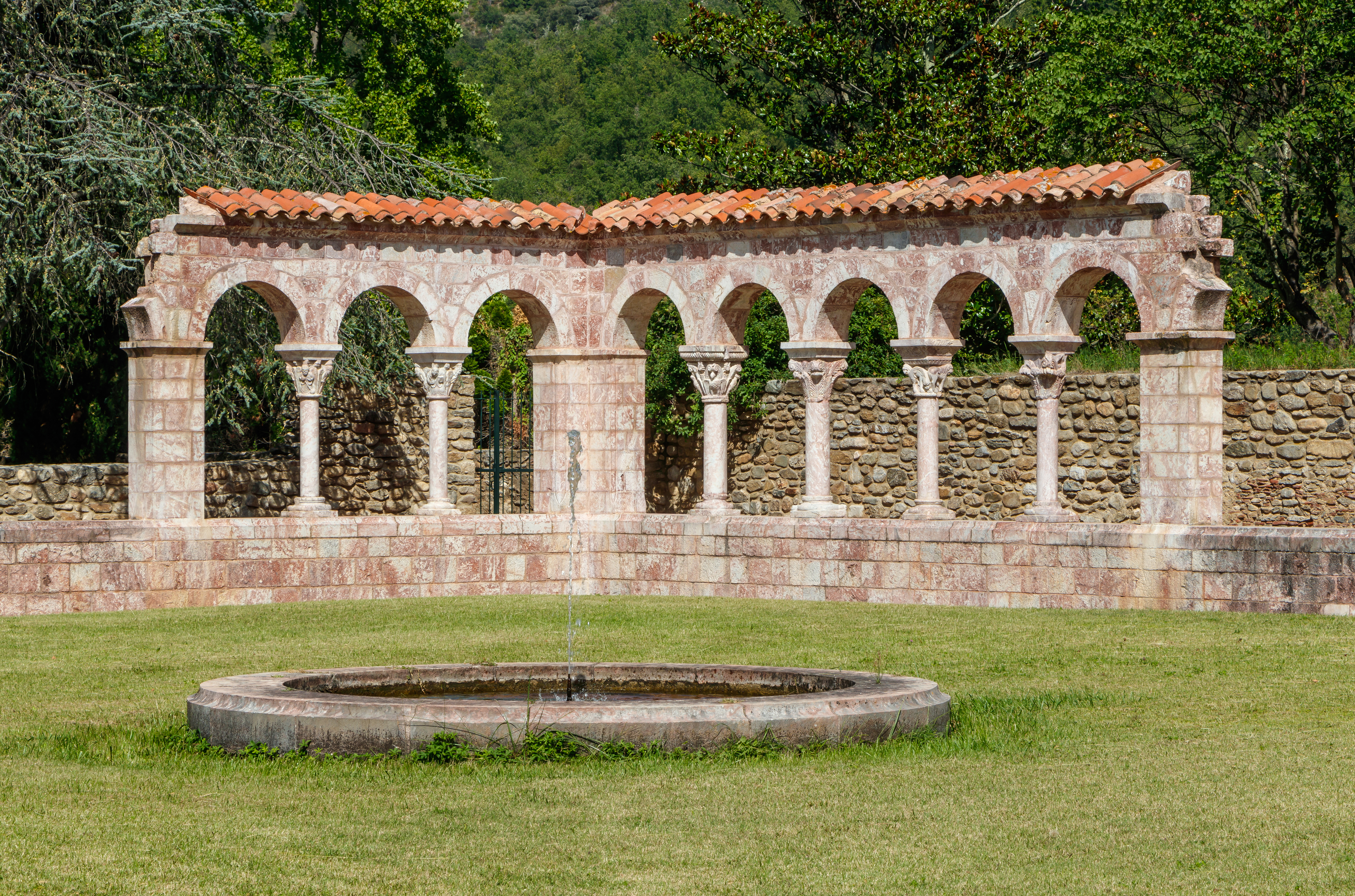 Part of the cloister, Abbey of Saint-Michel-de-Cuxa, Codalet, Pyrénées-Orientales department, France. About half of the stonework was transferred to the Museum The Cloisters at Fort Tryon Park in Washington Heights, Manhattan at the beginning 20th century, where a copy of this cloister (and others) was built. So the cloister in the original Abbey is incomplete, for a part of the original forms the cloister of the copy of the Museum in New York.